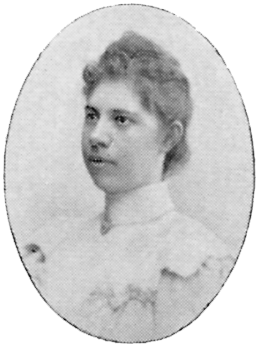 Image scanned from the book "Svenskt Porträttgalleri XX - Arkitekter, Bildhuggare, Målare m.fl. " ("Swedish Portrait Gallery XX - Architects, Sculptors, Painters, ") published 1901